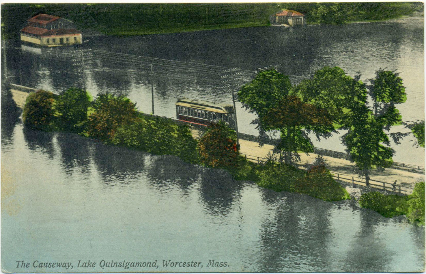 Early divided back postcard of a Boston & Worcester Street Railway trolley on the Lake Quinsigamond causeway, postmarked 1908